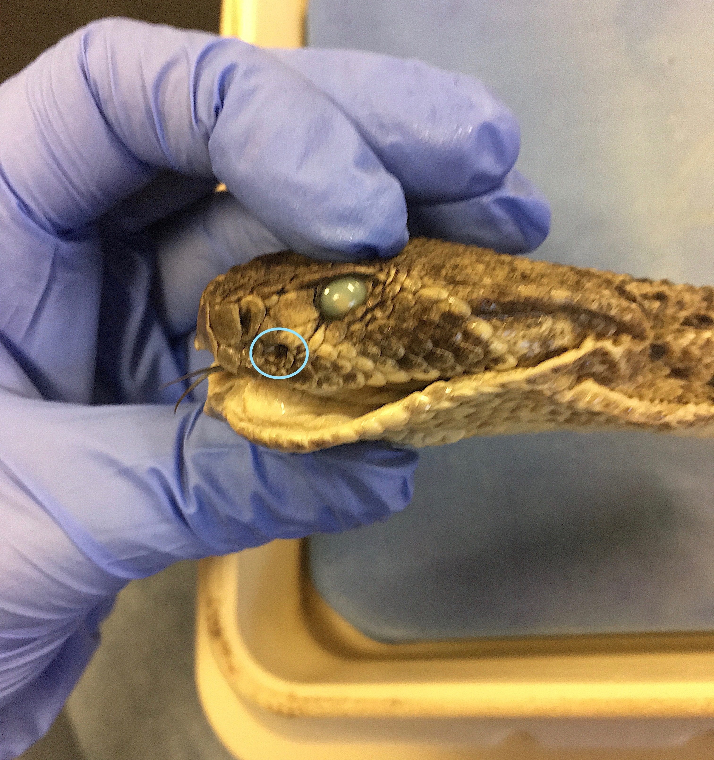 Rattlesnake, Pacific Lutheran University Comparative Anatomy, Heat Sensing Pits